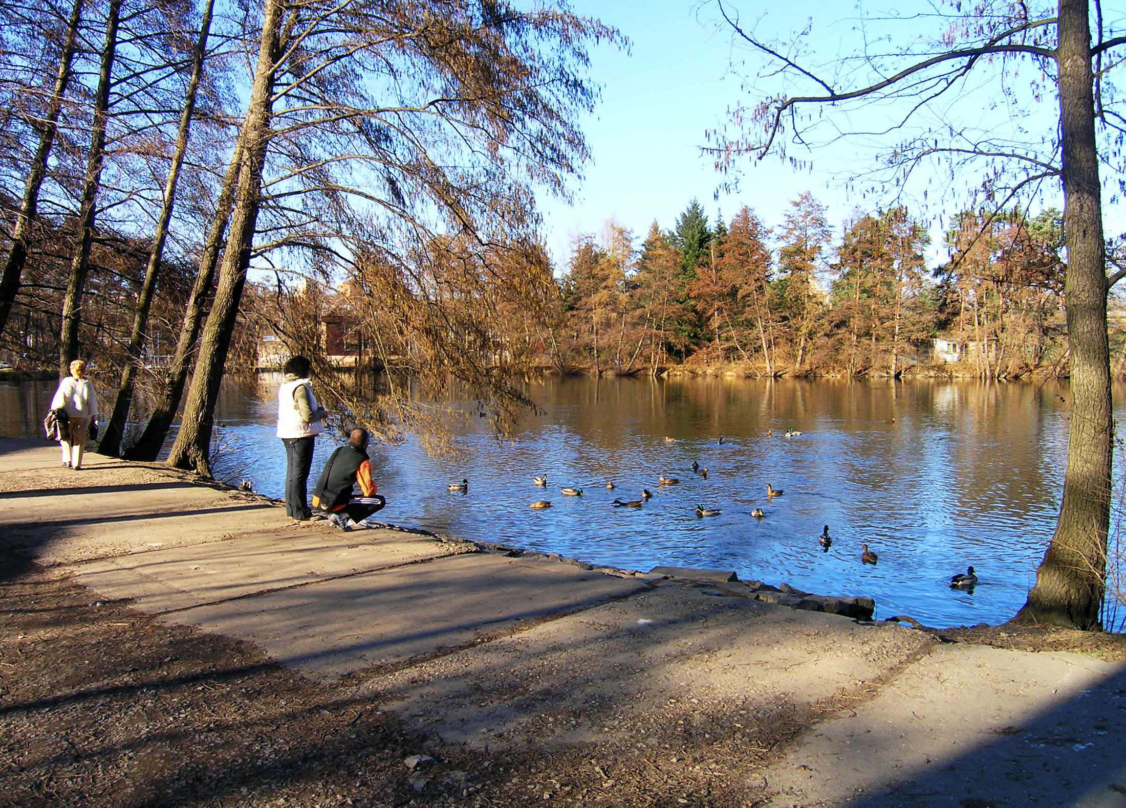 Labuť pond at Kunratický forest in Krč, Prague